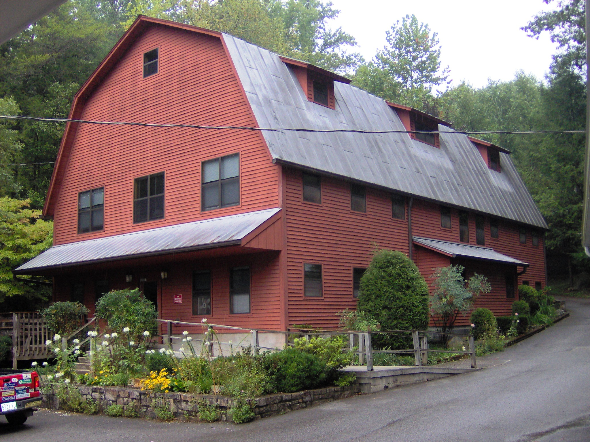 The Red Barn, also called the Stock Barn or the Model Barn, on the Arrowmont School of Arts and Crafts campus in the U.S. city of Gatlinburg, Tennessee.